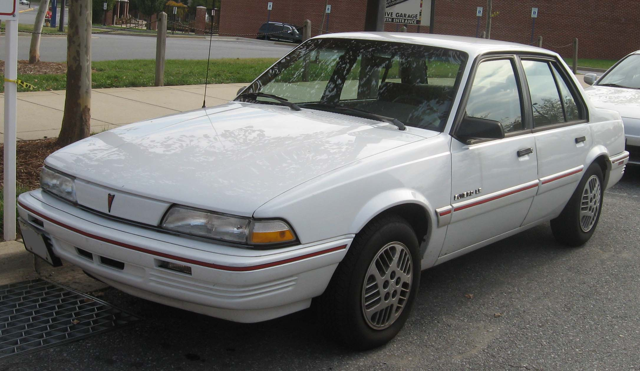 1989-1994 Pontiac Sunbird photographed in College Park, Maryland, USA.